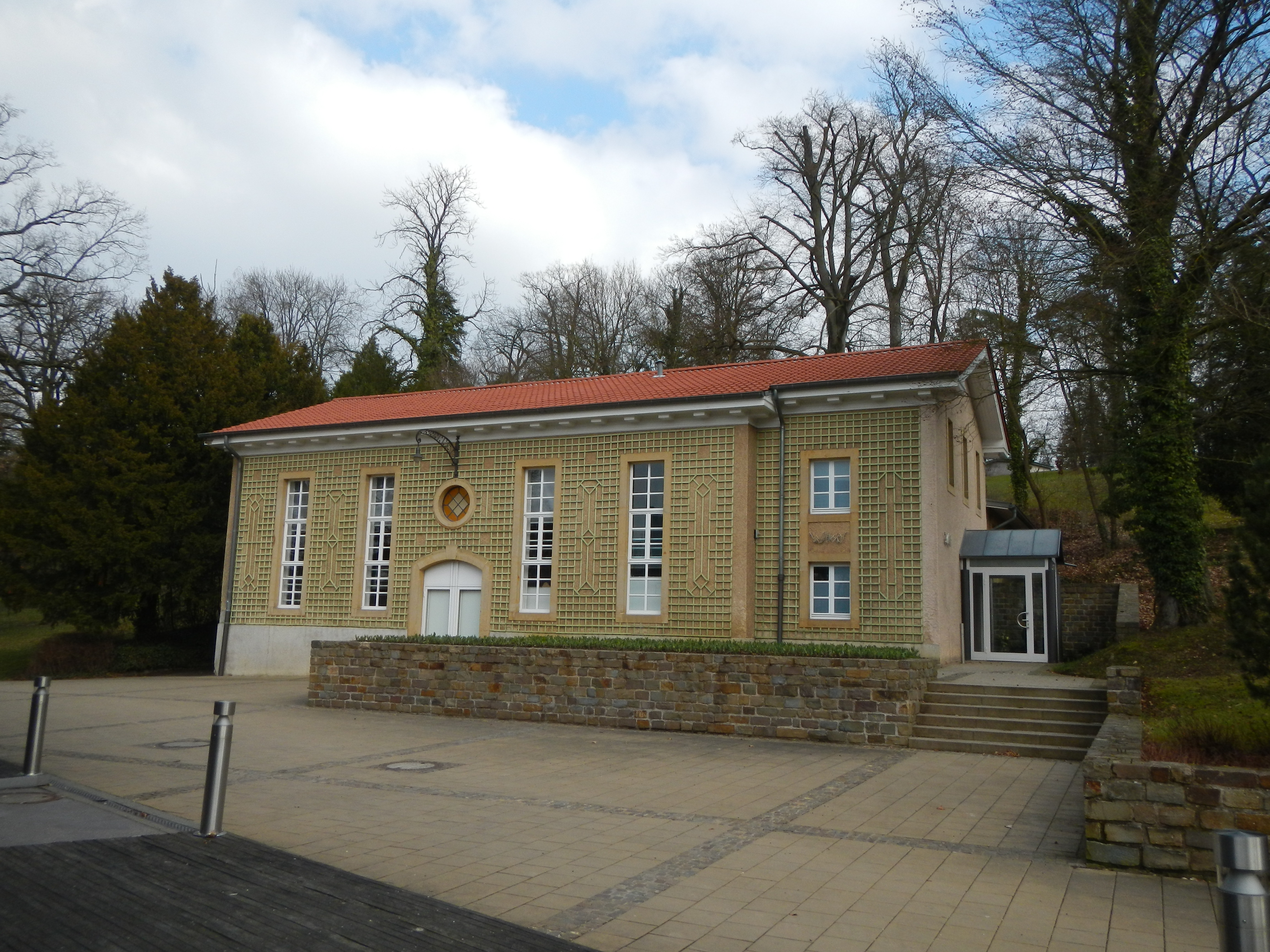 The movie theatre Waasserhaus in the park of the spa in Mondorf, Luxembourg.